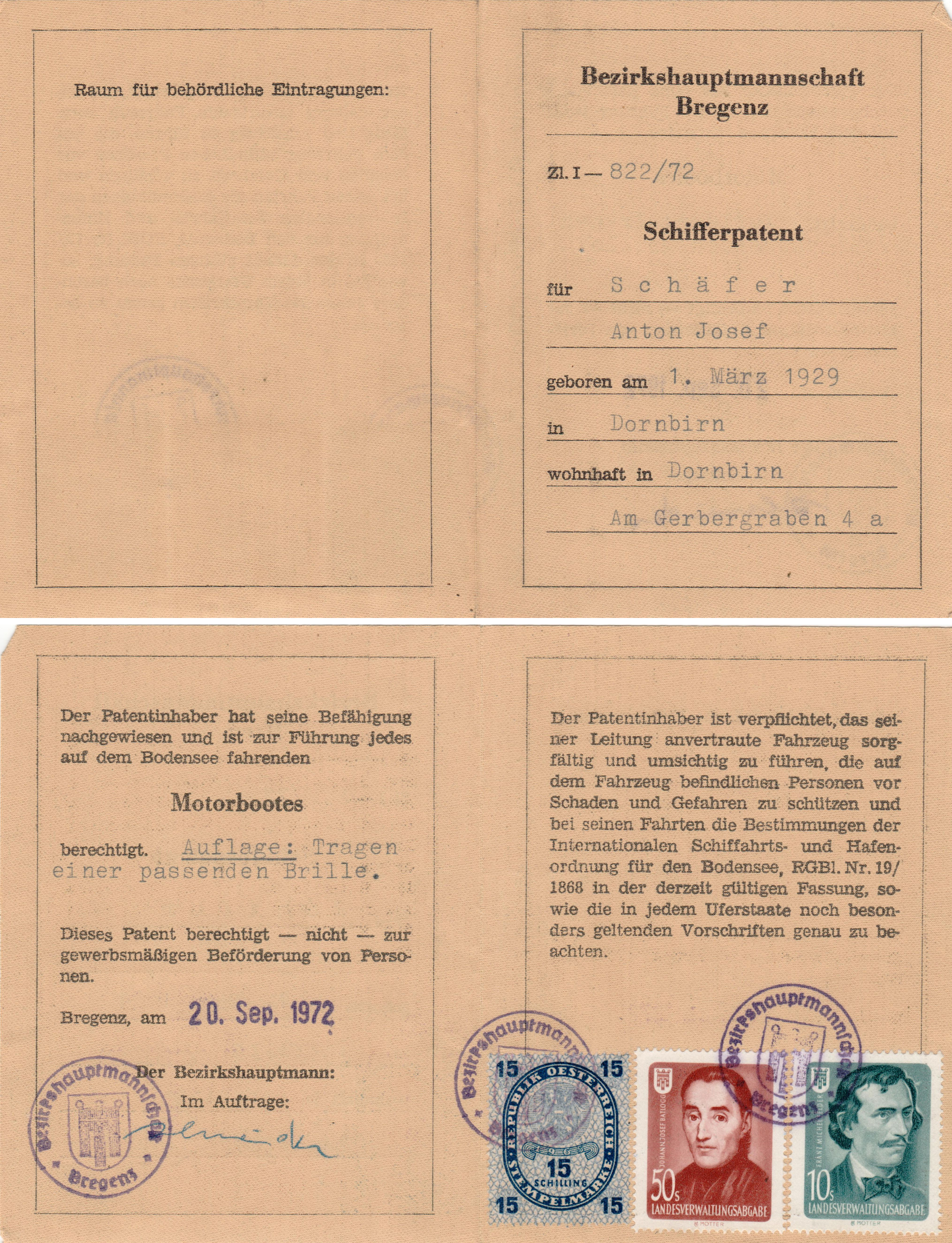 Lake Constance skipper licenc No. 822 / 72for Anton Josef Schäfer, issued by the Bezirkshauptmannschaft (district authority) Bregenz on September 20, 1972, valid without limitation. On the 50-Schilling revenue stamp for the state administration tax Johann Josef Batlogg can be seen on the ten-schilling revenue stamp for the state administration tax Franz Michael Felder.